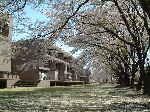 Kumagaya Campus, Rissho University. Located in Kumagaya, Saitama Pref., Japan.